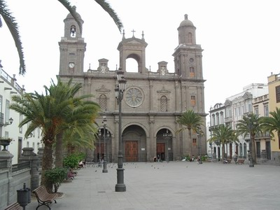 Santa Ana Cathedral, Cathedral of the Canary Islands. Las Palmas de Gran Canaria, Canary Islands. Source: photo perso Rémi Stosskopf Date: 24.07.2005